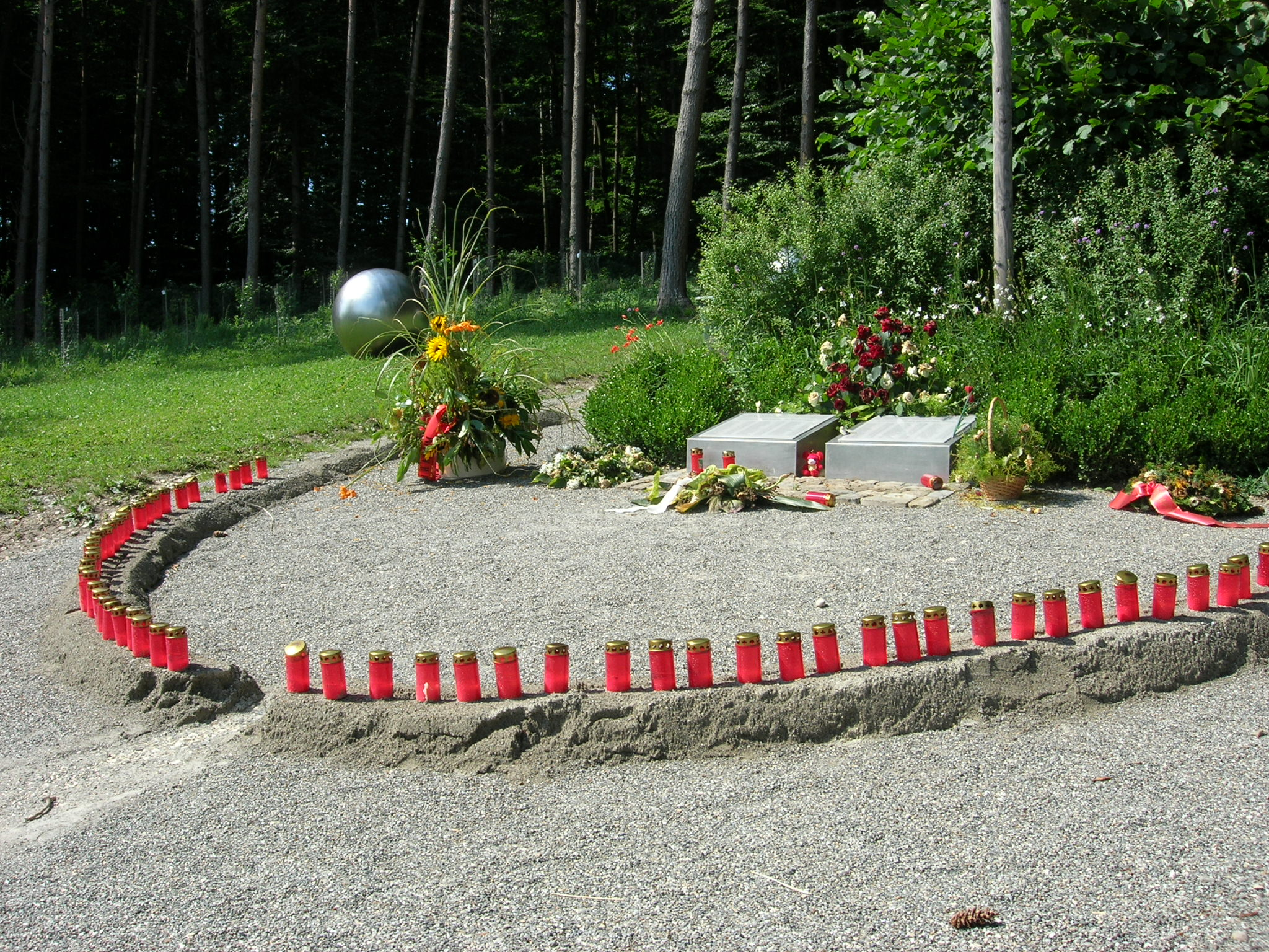 Memorial for the Überlingen mid-air collision (2002)